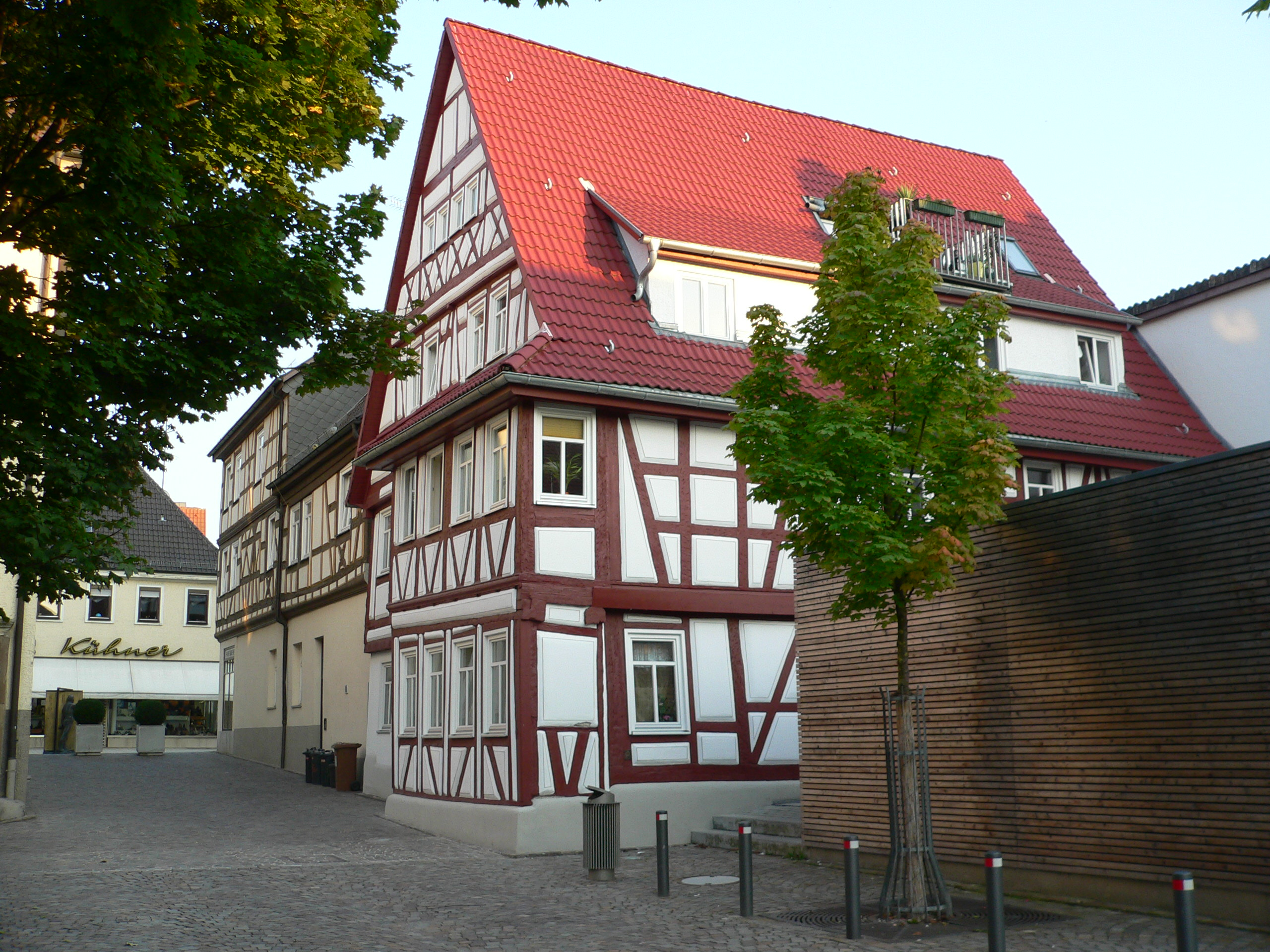 Half-timbered House in the alley "loewengasse" of the City Neckarsulm